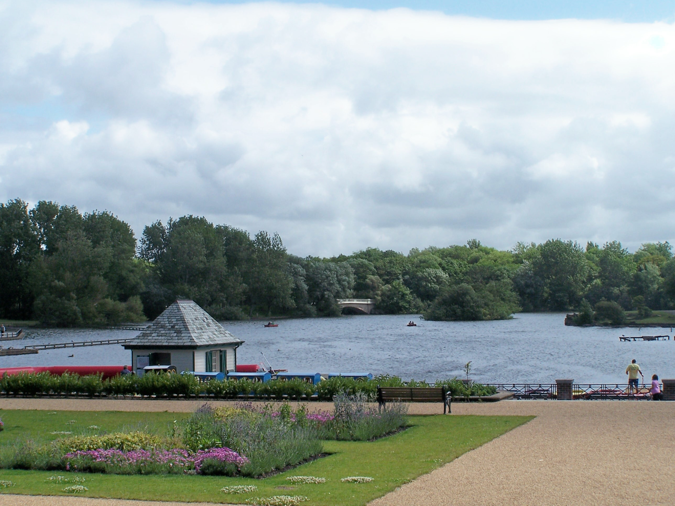 View across the Boating Lake, Stanley Park, Blackpool